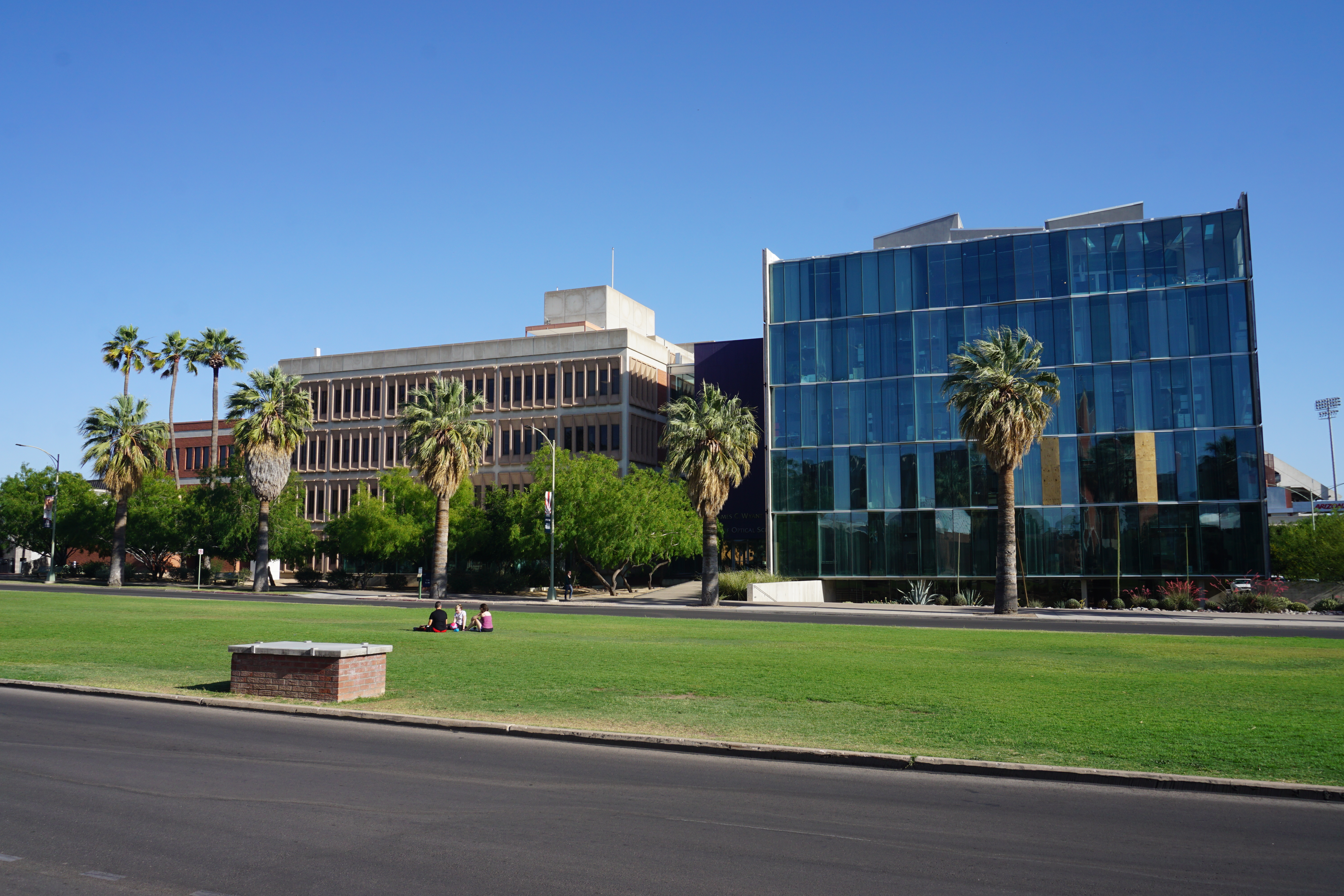 The Meinel Optical Sciences building on the campus of the University of Arizona in Tucson, Arizona (United States).